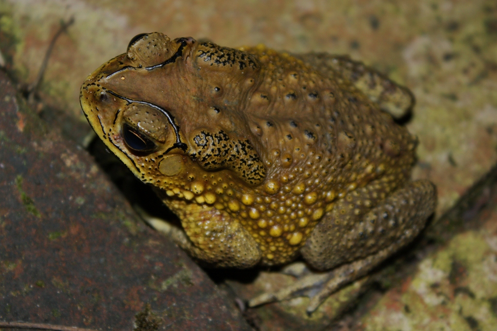 Found in marshland in Sa Kaeo, Thailand.